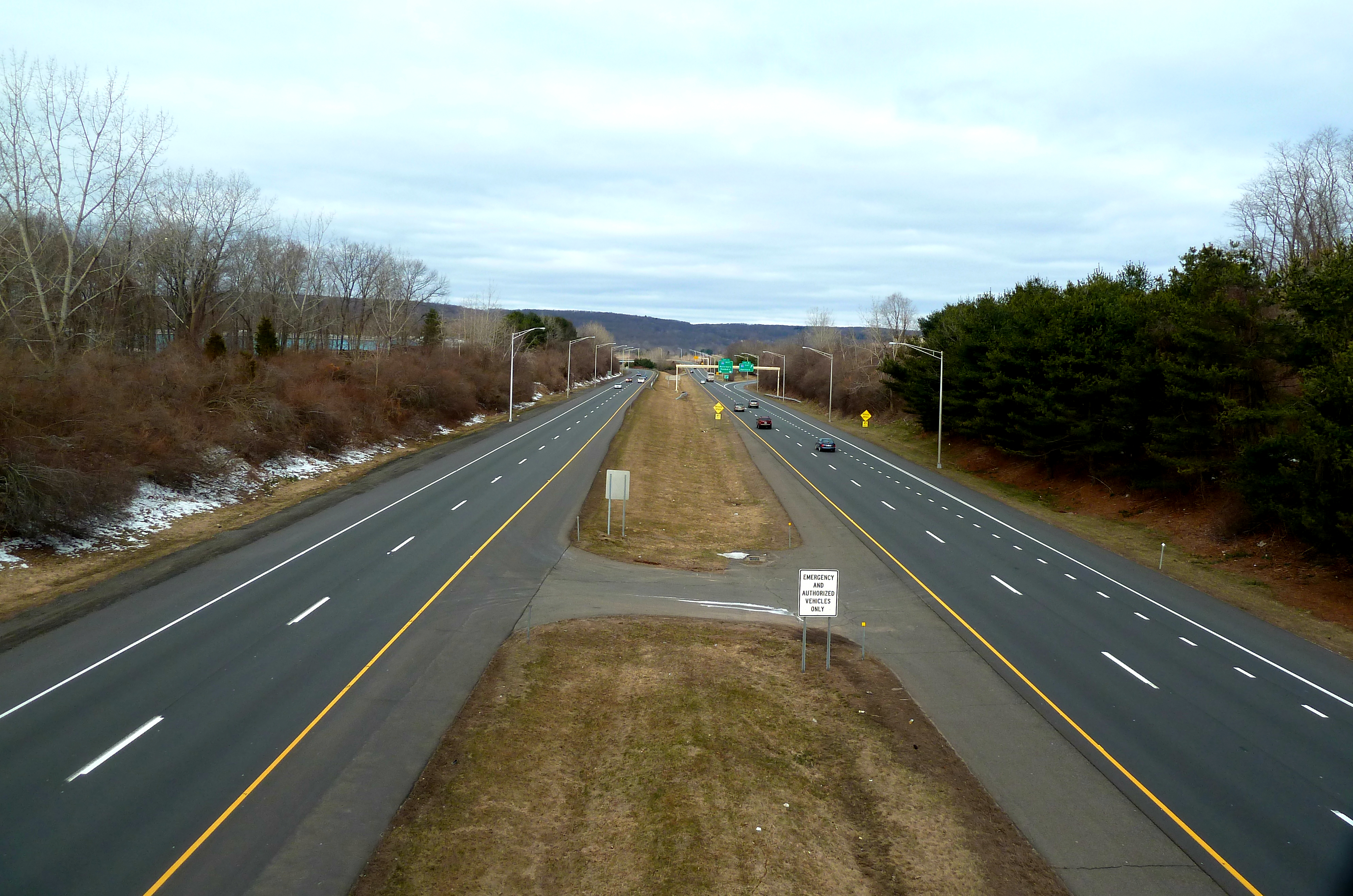 I-691 looking west from the Peck Lane bridge in Cheshire, CT